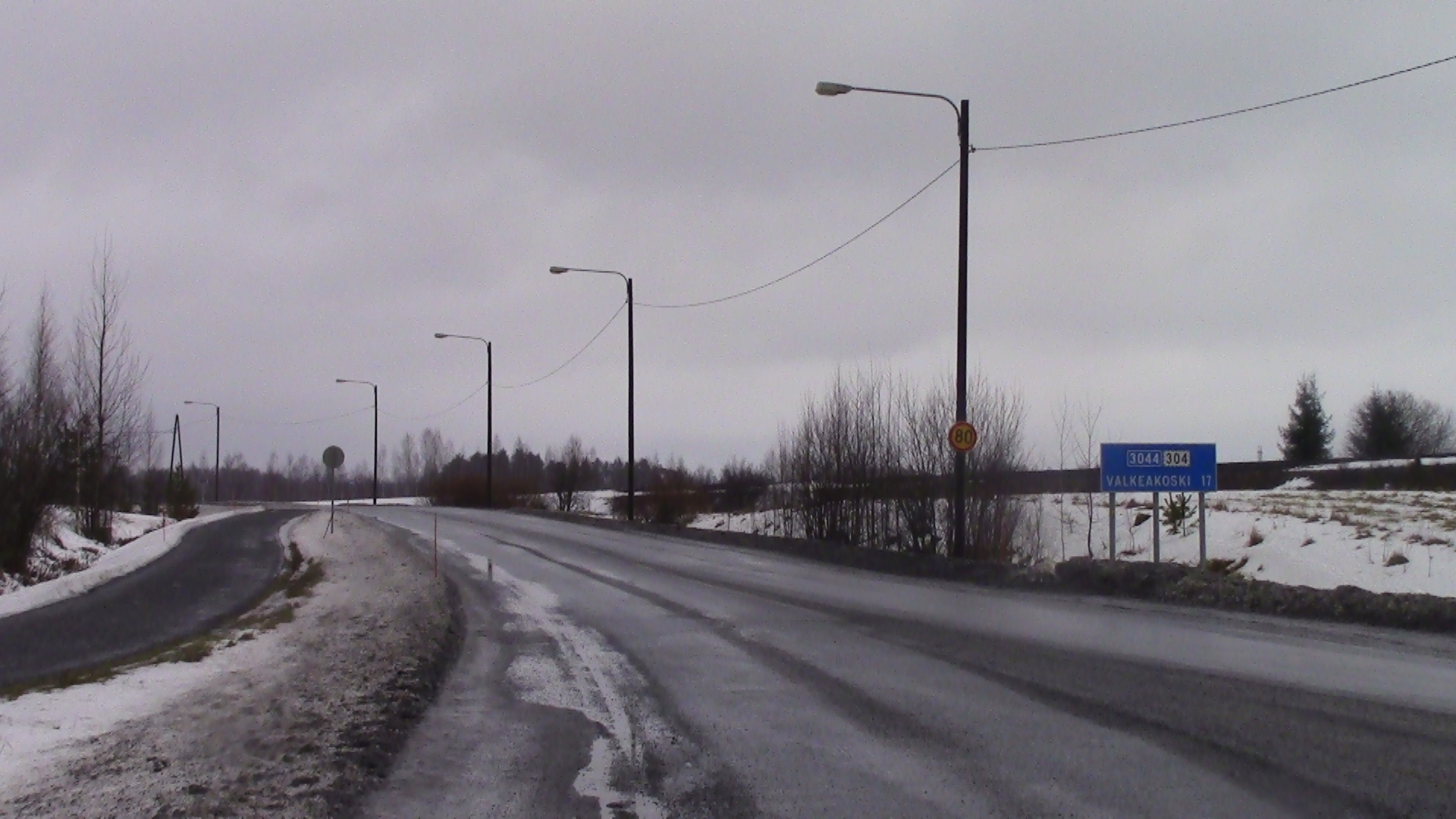 Finnish connecting road 3044 photographed of Its ending point in Akaa. The road runs from Metunhaka, Valkeakoski to Kurjenkallio, Akaa. It's a part of the old regional road 304.